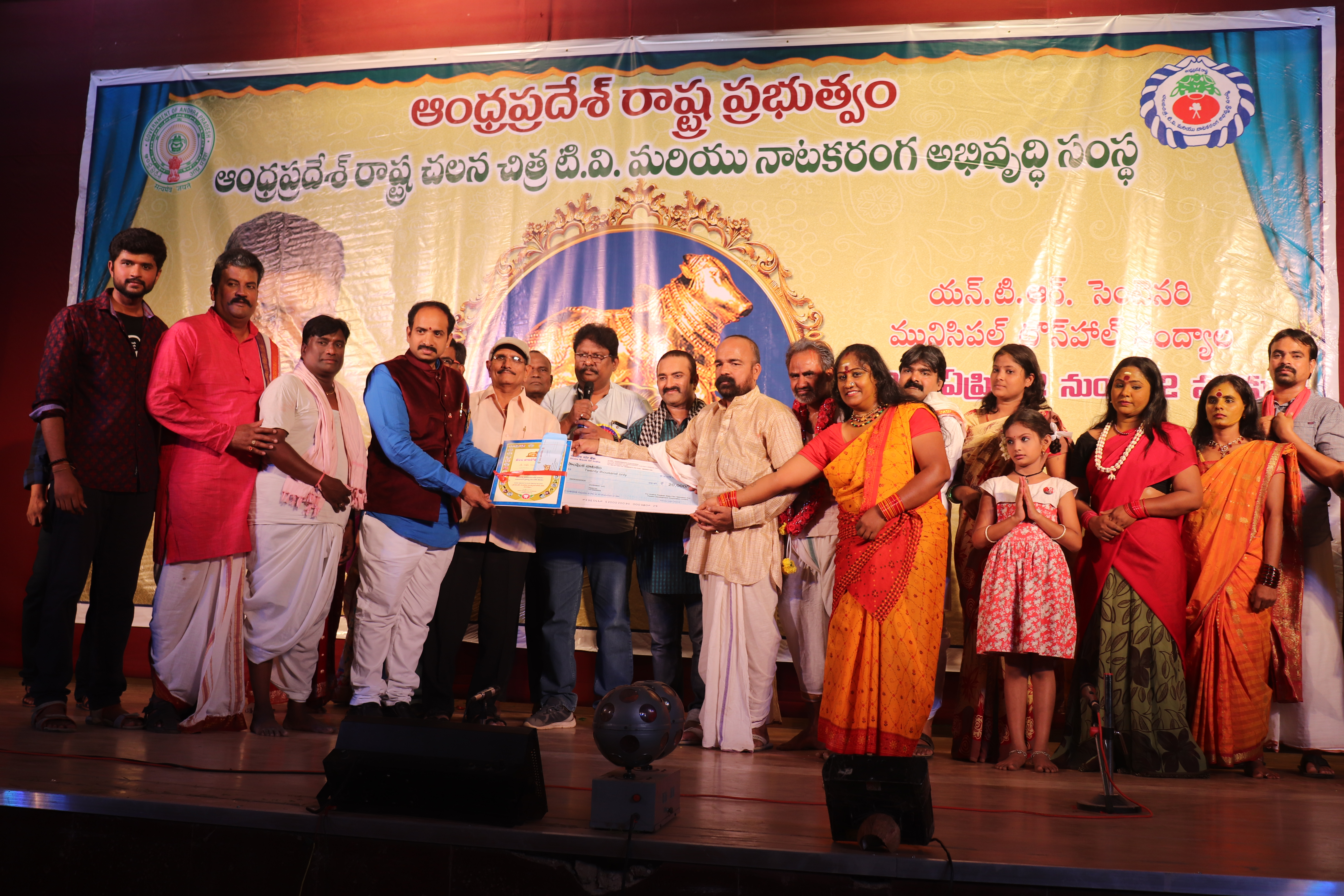 Tegaram Play Team receiving Felicitation in Nandi Theatre Festival - 2017